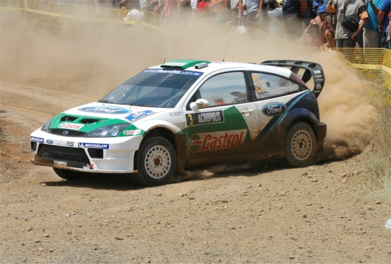 Toni Gardemeister driving a Ford Focus WRC at the 2005 Acropolis Rally.